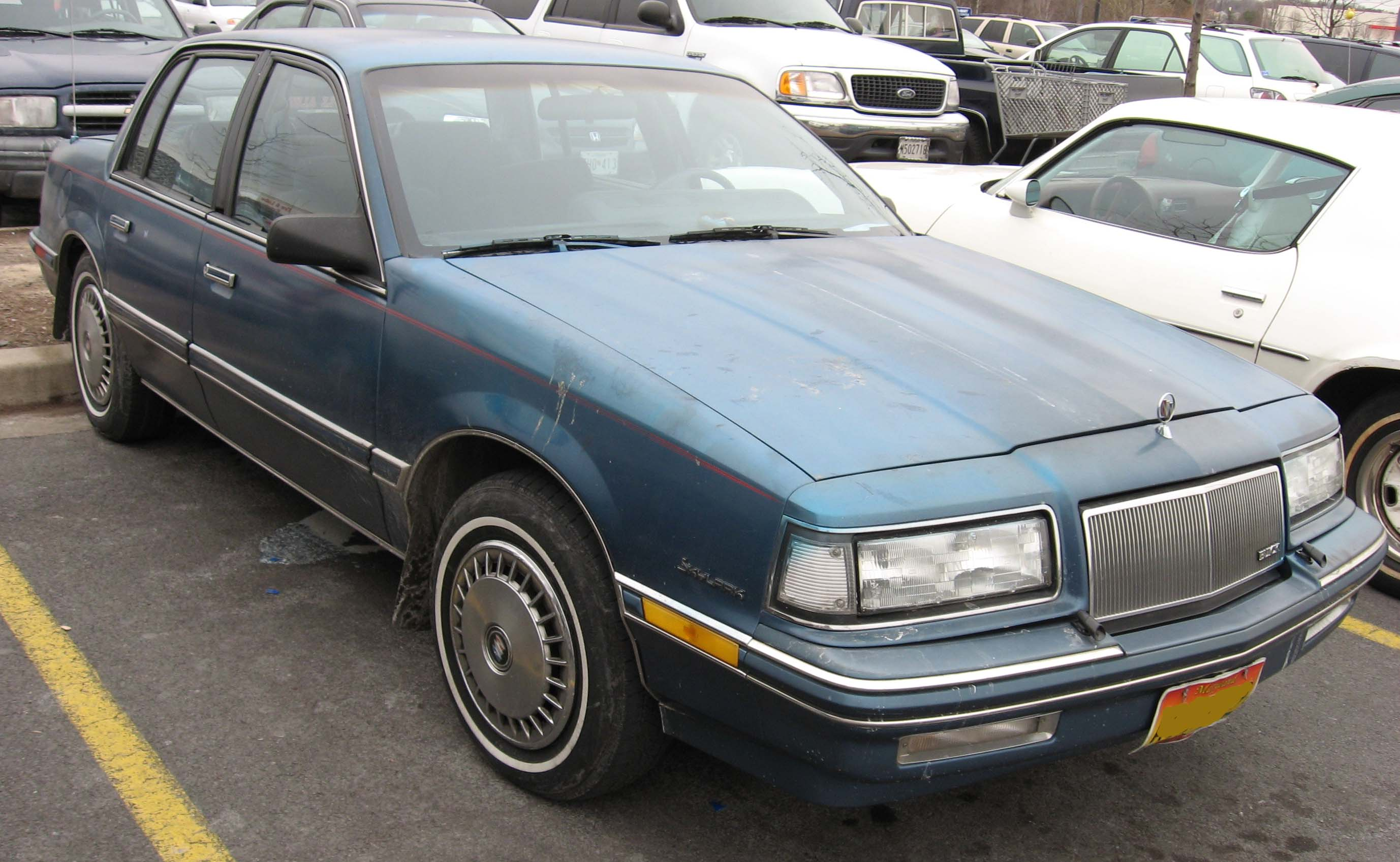 1988-1991 Buick Skylark photographed in USA.